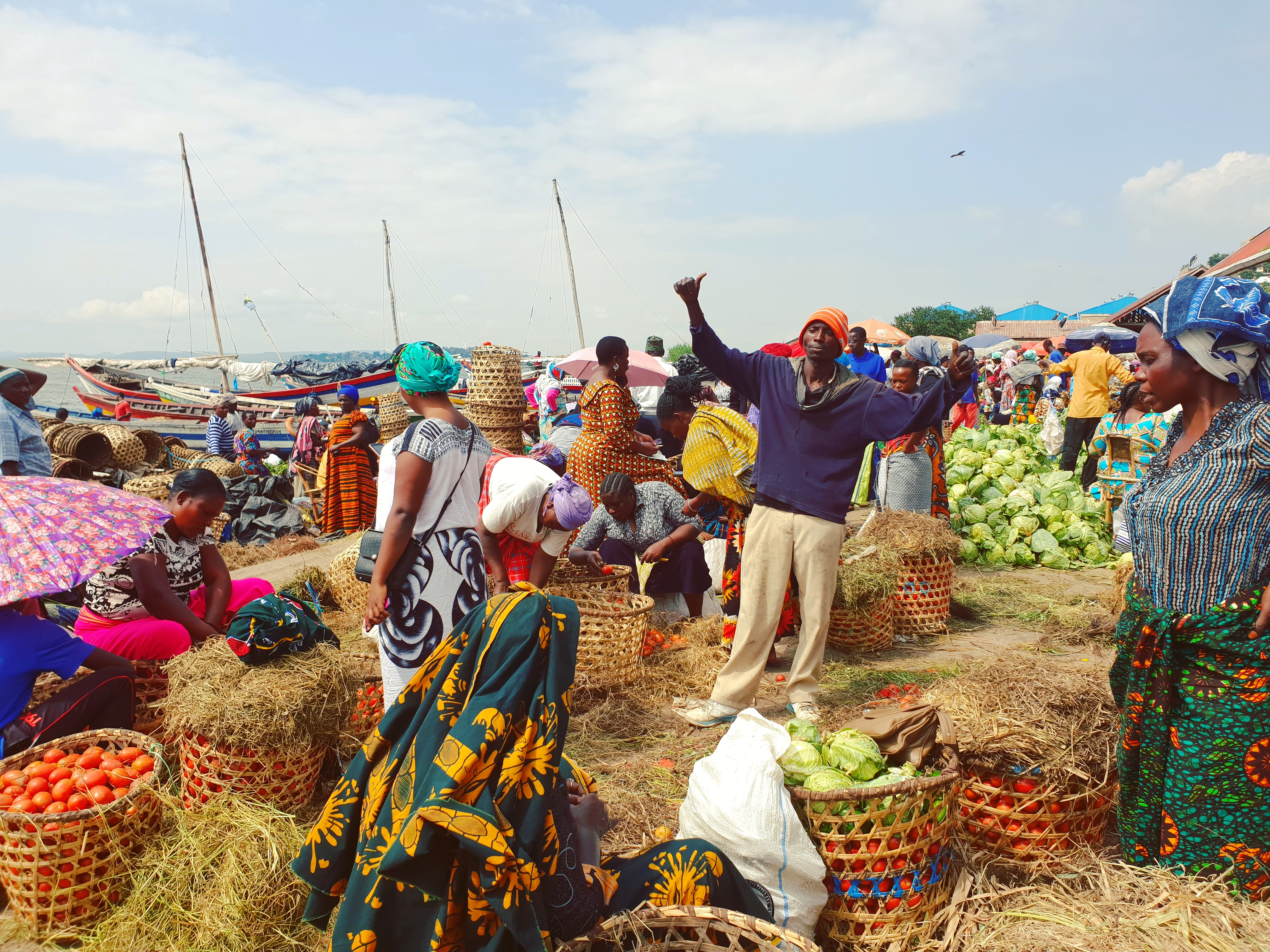 Thé fish marquet in Mwanza is the biggest in East Africa . Full of movement, colour, odours ,energy and fish :) This is an image with the theme "Africa on the Move or Transport" from: Tanzania